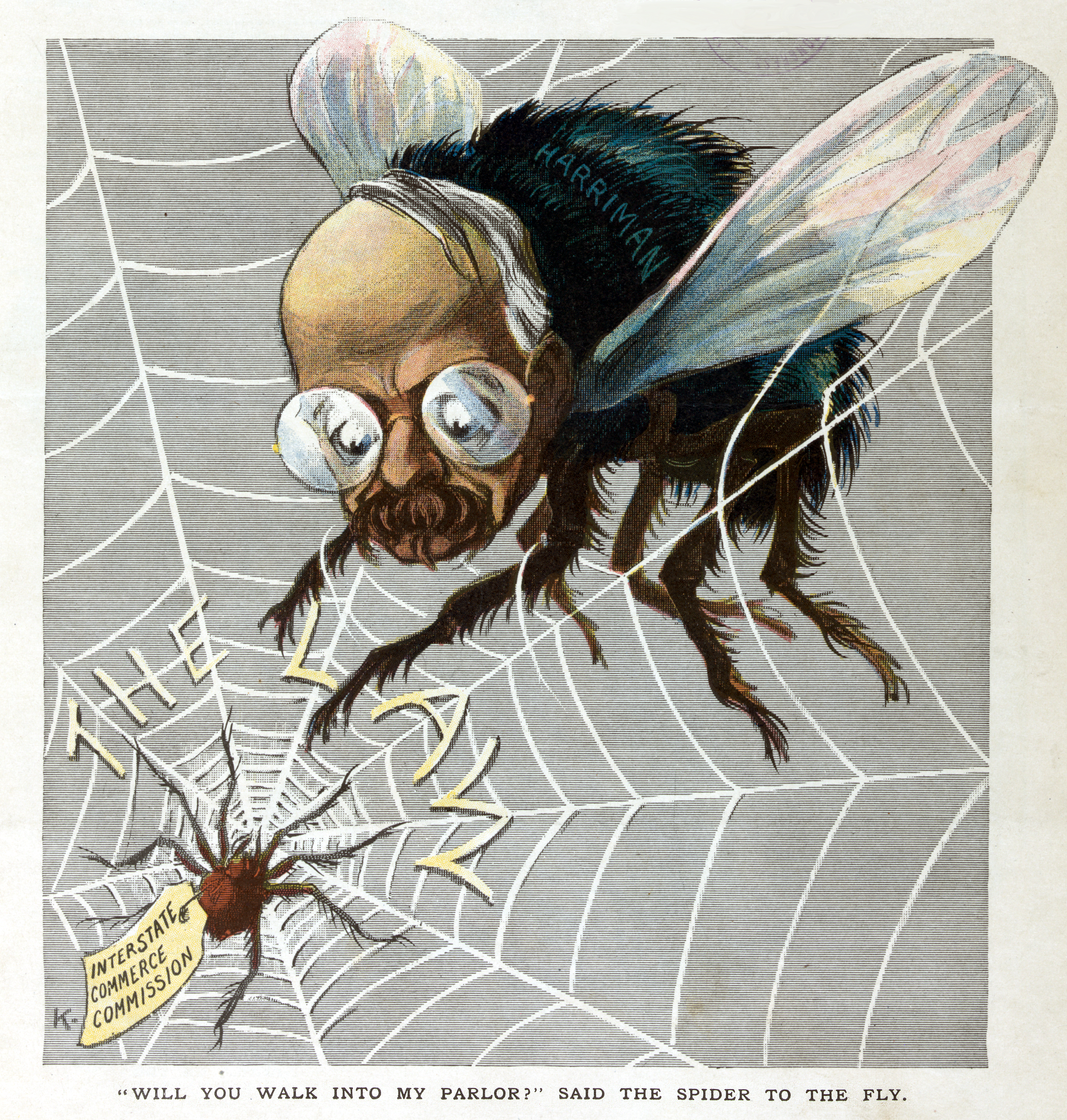 Cartoon, "'Will you walk into my parlor?' said the Spider to the Fly." Railroad tycoon E. H. Harriman is depicted as a fly on a spider web labeled "The Law," subject to the control of the Interstate Commerce Commission, depicted here as the spider. Harriman controlled the Union Pacific Railroad, Southern Pacific Railroad, Illinois Central Railroad and others. The cartoon caption is the opening line from "The Spider and the Fly," an 1829 poem by Mary Howitt. Cartoon brightened from LOC scanned image.